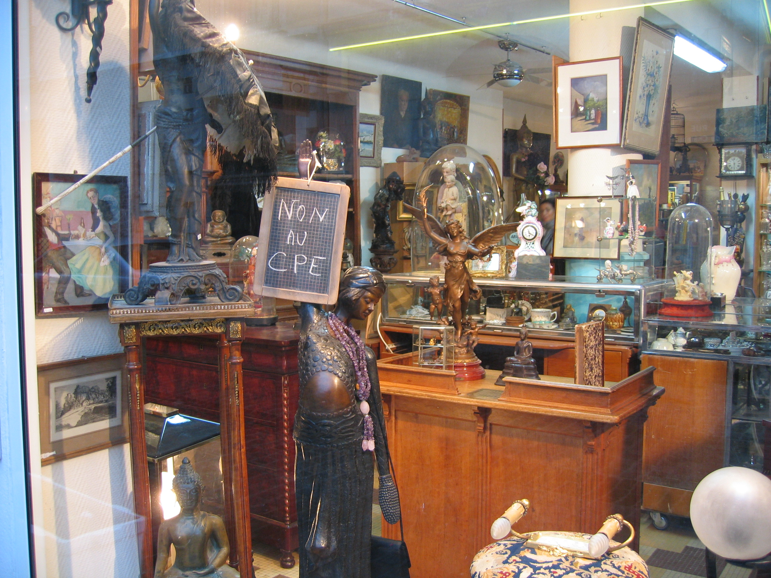 Antiquaire à Nantes le fr:30 mars fr:2006. Licensing This work has been released into the public domain by its author, Coin-coin. This applies worldwide. In some countries this may not be legally possible; if so: Coin-coin grants anyone the right to use this work for any purpose, without any conditions, unless such conditions are required by law.